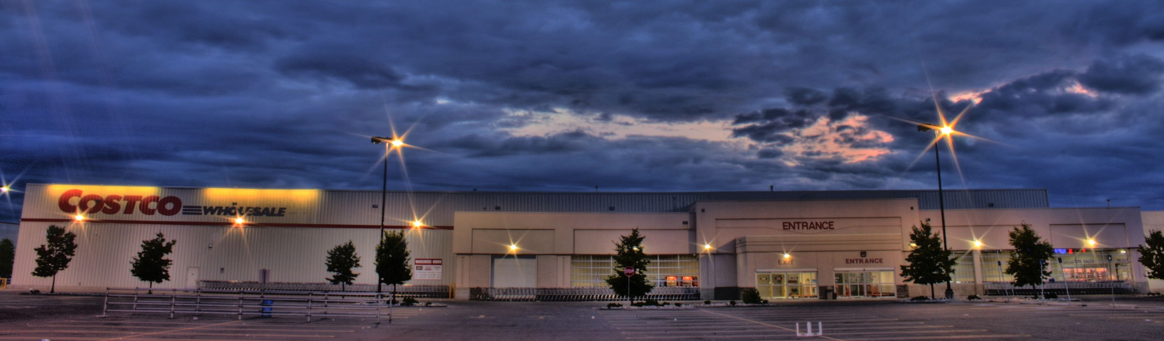 A Costco store in Edmonton, Alberta, Canada.